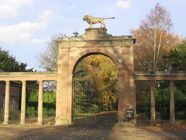 The West Lodge entrance to Ladykirk House Ladykirk West Lodge, constructed in 1799, has a spectacular lion-topped Corinthian archway and columned screen walls. (Source: Borders and Berwick, An Architectural Guide by Charles Alexander Strang).